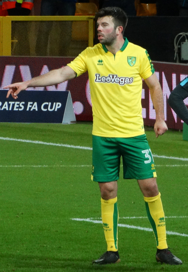 FA Cup 3rd round 6.1.18